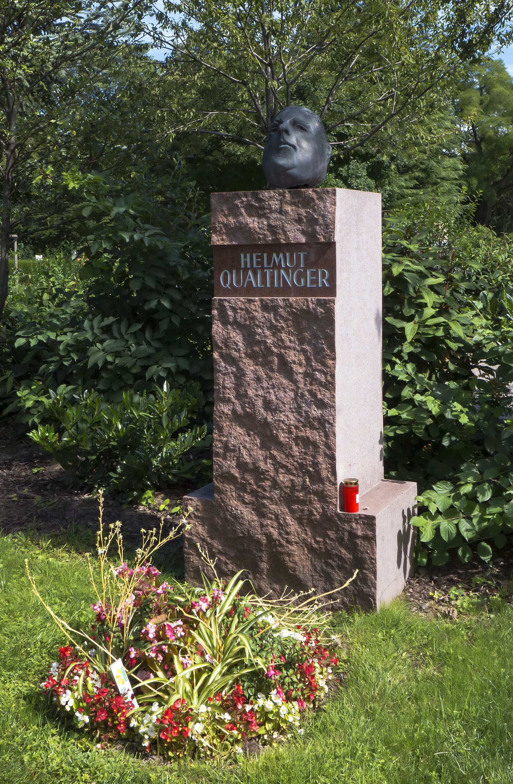 Grave of Helmut Qualtinger at the Zentralfriedhof in Vienna 11